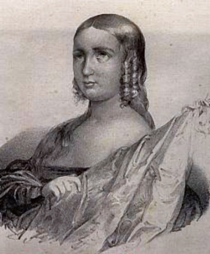 Portrait of Granadin heroine Mariana Pineda, holding the revolutionary flag for which she was killed